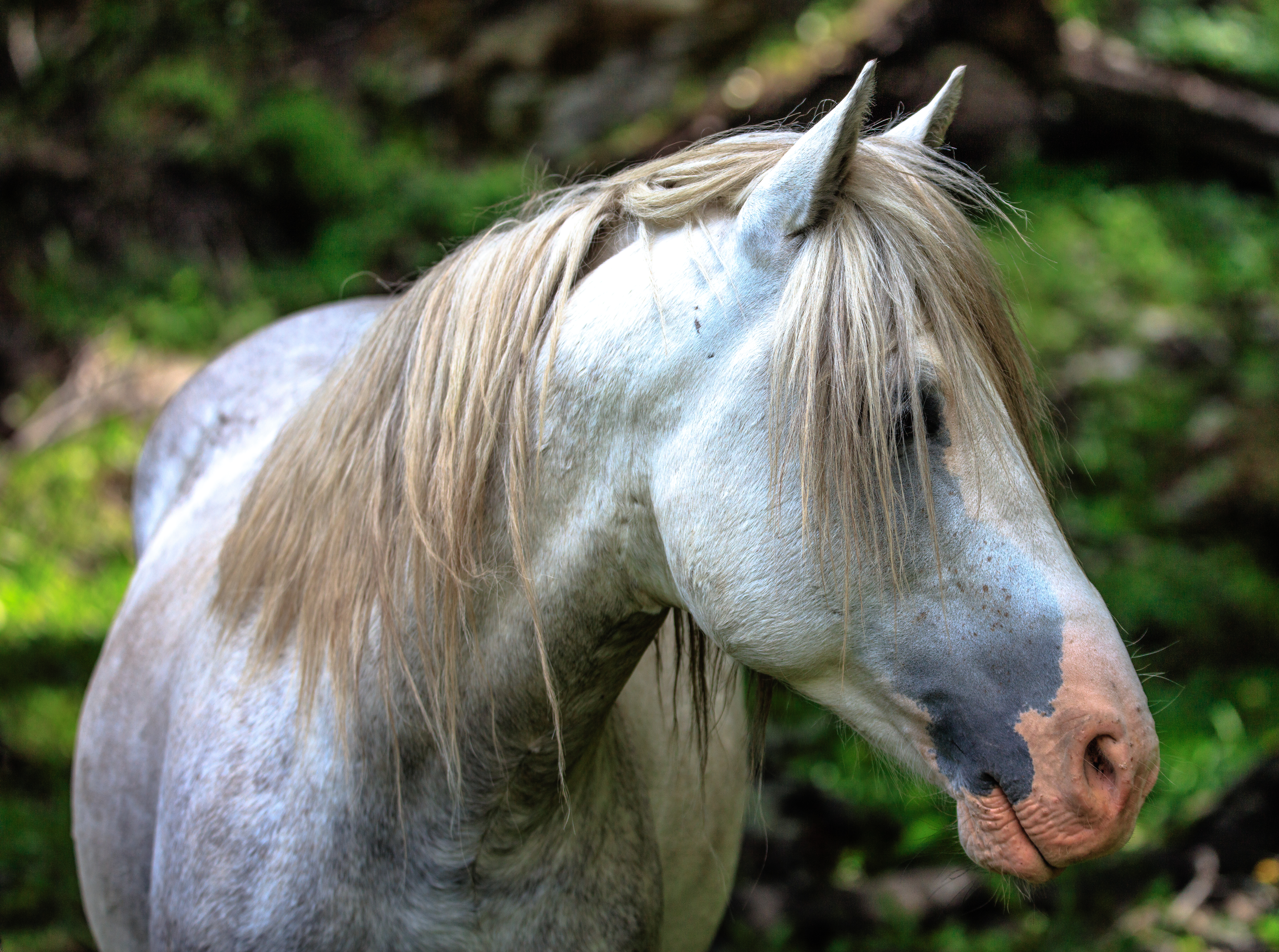 a day trip from Ushuaia into Parque Nacional Tierra del Fuego...'more tourists disturbing my peaceful grazing'...